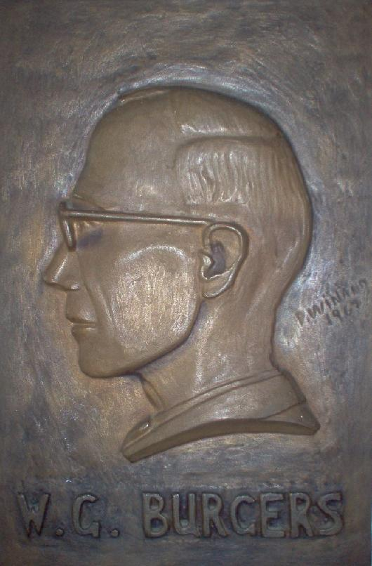 Relief (commemorative plaque) which was hanging on the wall of the department of Materials science at Delft, University of Technology (The Netherlands), Rotterdamseweg 137. (With the movement of the department during the spring of 2006, it was removed to be taken to the new building, but I'm not sure where the statue is now). It represents W.G. Burgers, father of the Burgers vector I have made the picture myself, although I don't know exactly the rules for the photography of stones like this. I guess making pictures of statues puts the picture in PD but I am not 100% sure.